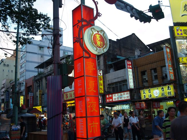 ningxia night market taken by ResTpeTw on September 23rd 2007